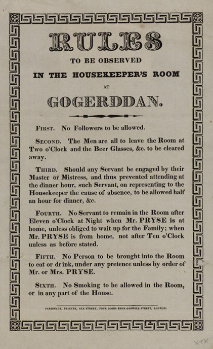 Rules To Be Observed by Housekeeper at Gogerddan